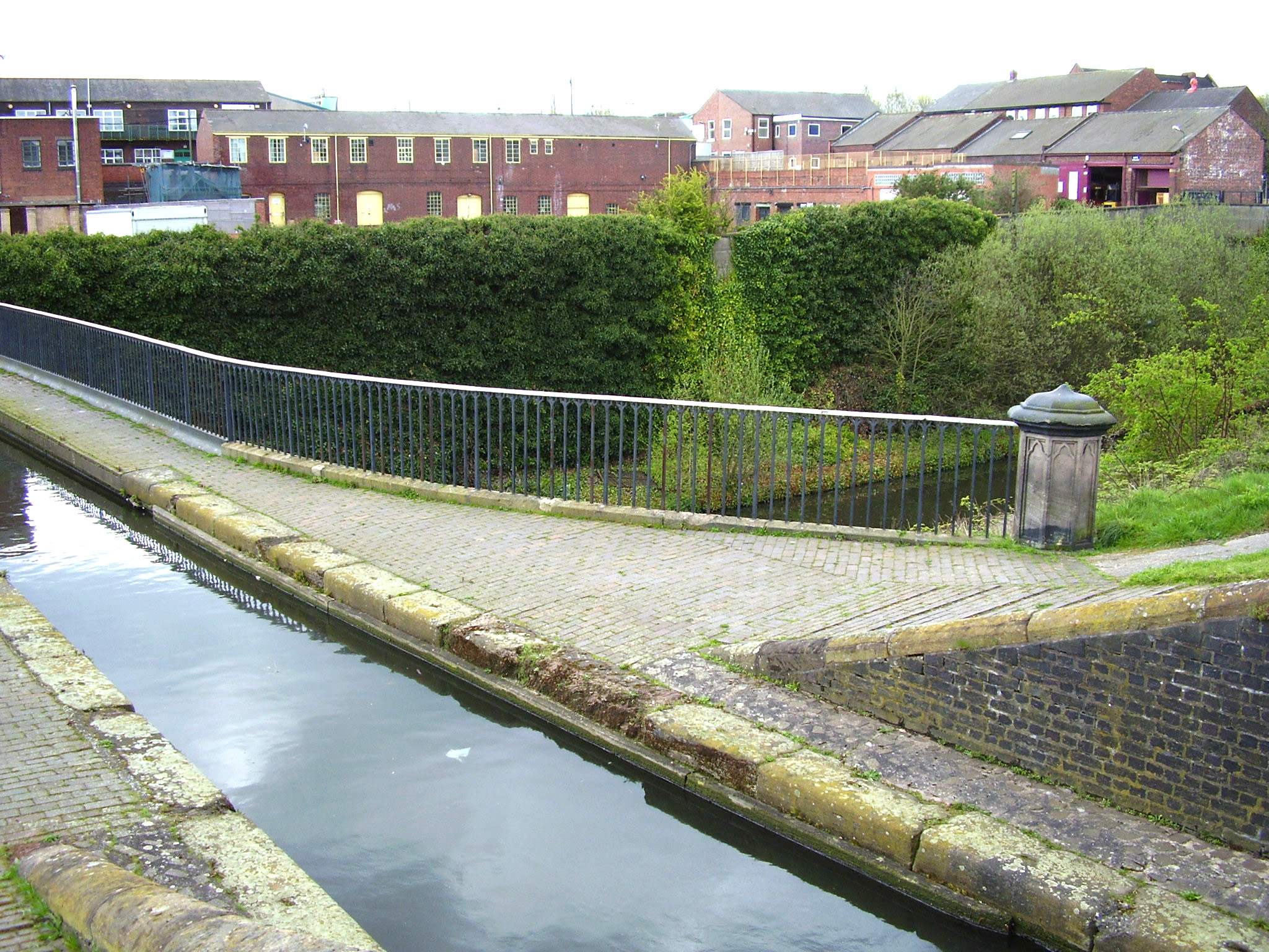 Engine Arm Aqueduct illustrating the two water levels